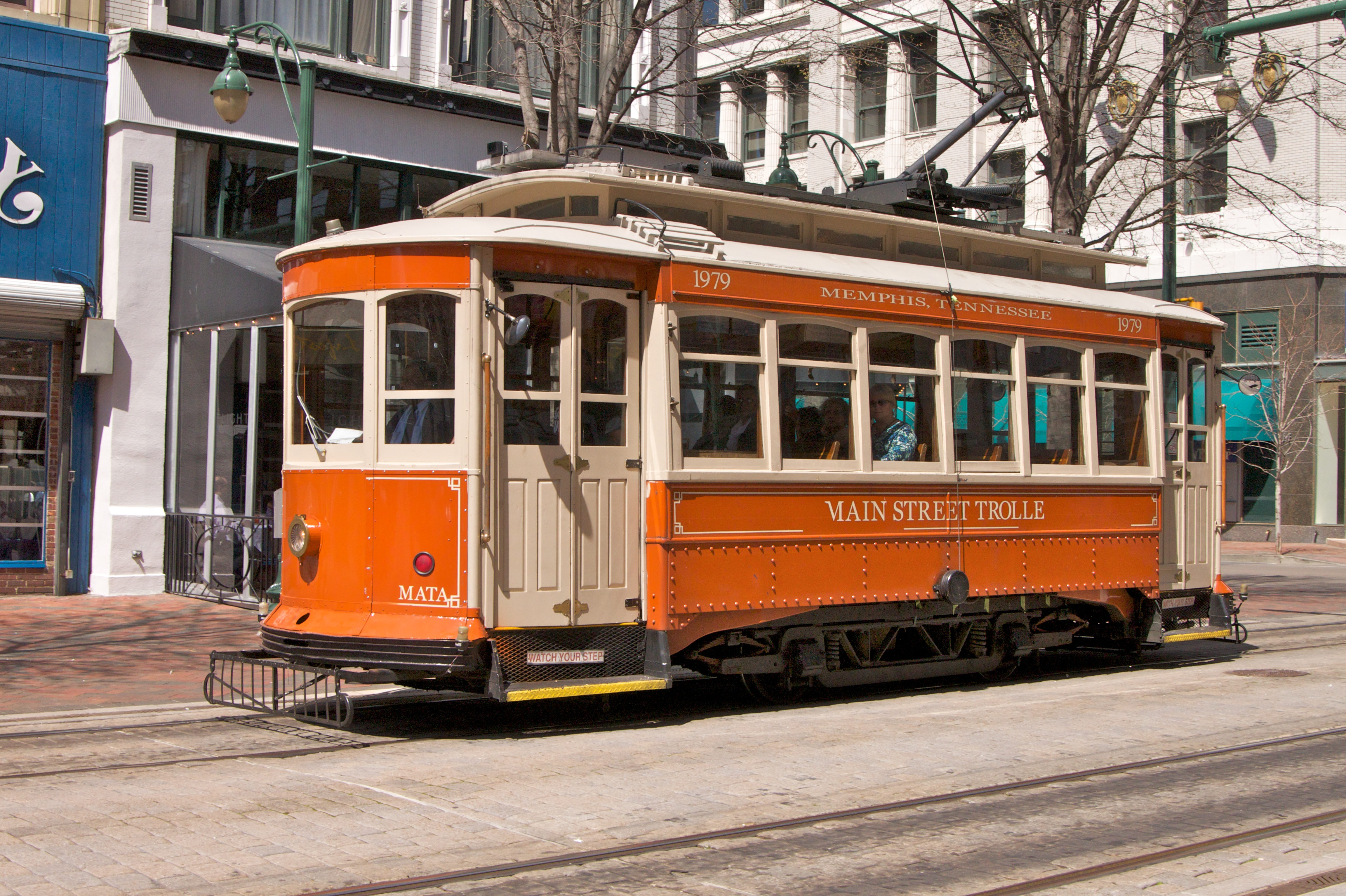 Car 1979 of the Memphis Area Transit Authority's trolley system is a vintage-style trolley built by the Gomaco Trolley Company in 1993.